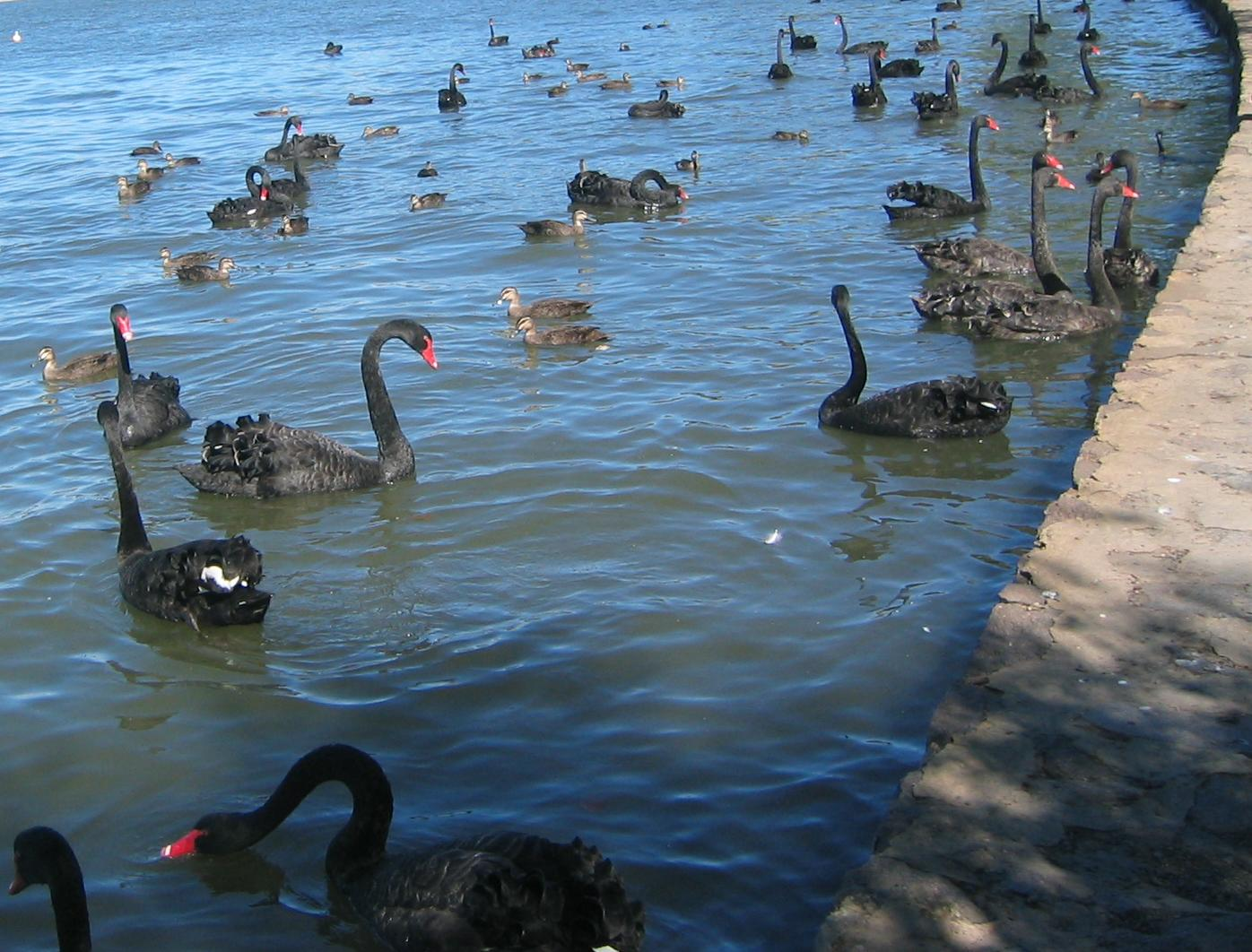 Black Swans and Pacific Black Ducks East Basin Lake Burley Griffin Canberra